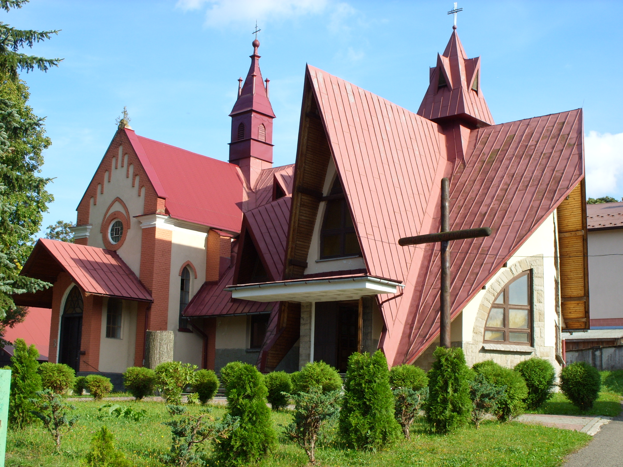 Church in Zwardoń (Poland)